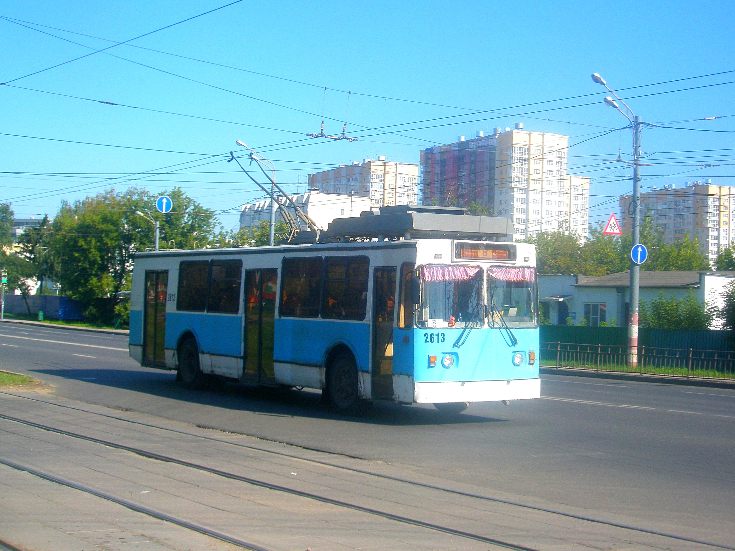 Trolleybus number 2613 in Nizhny Novgorod on Komintern Street on line 8